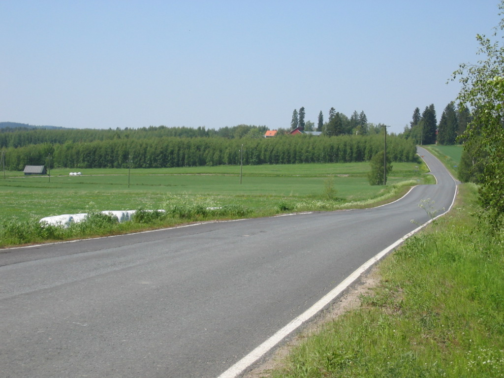 Regional road 276 (Luhalahdentie) in Tevaniemi, Ikaalinen, Finland